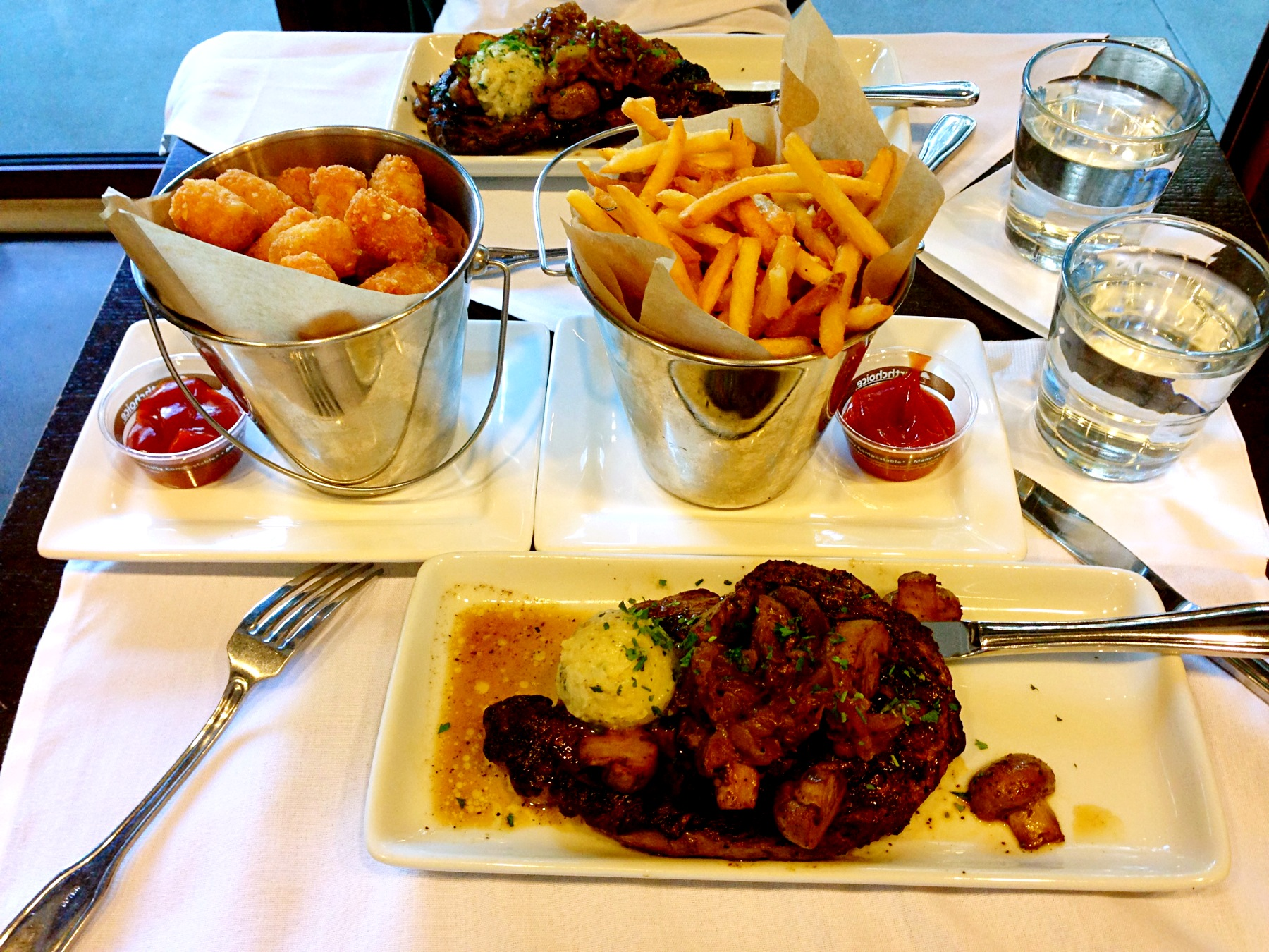 Steak meal with fried mushrooms and onions, fries and tater tots.